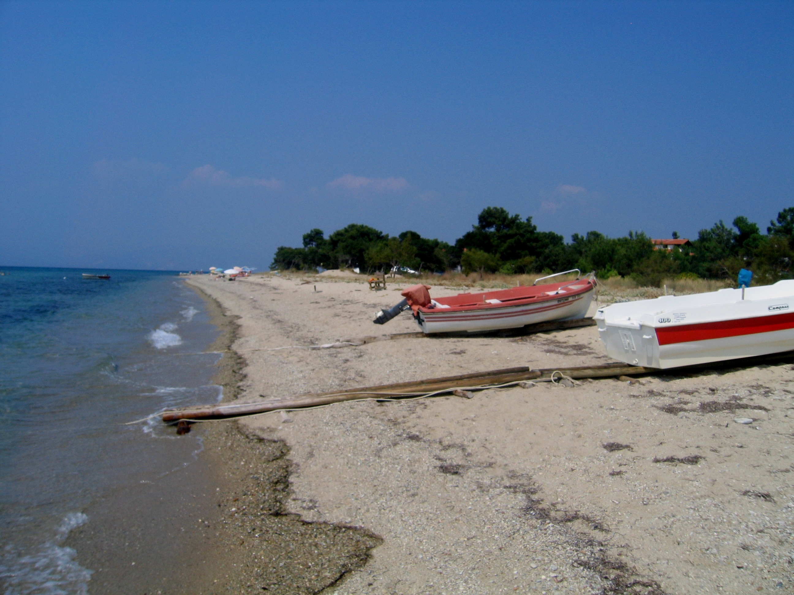 Grece Thasos Ornos Prinou Plage 19082009